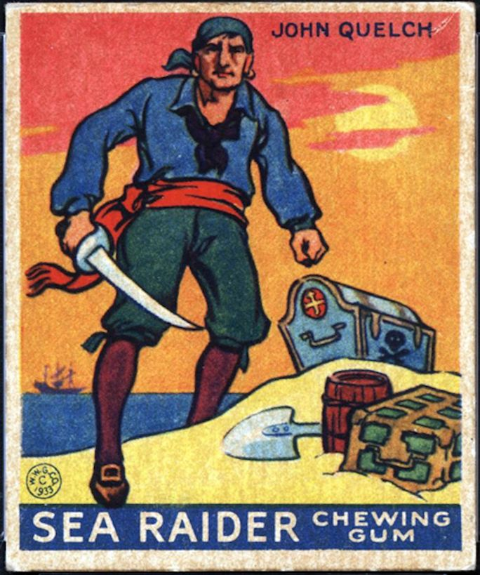 Captain John Quelch from the 1933 World Wide Gum Co. "Sea Raiders" trading card series